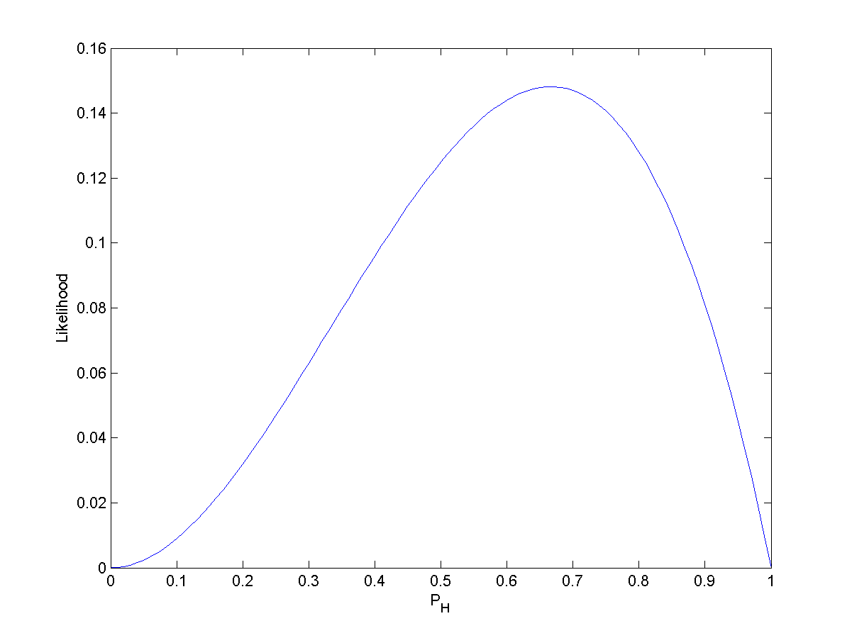 Estimating the probability of a coin landing heads-up after observing HHT without a priori knowledge